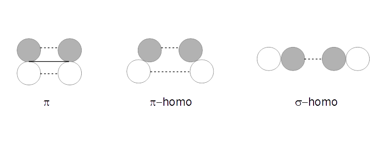 Chemical Bond: Types of conjugation